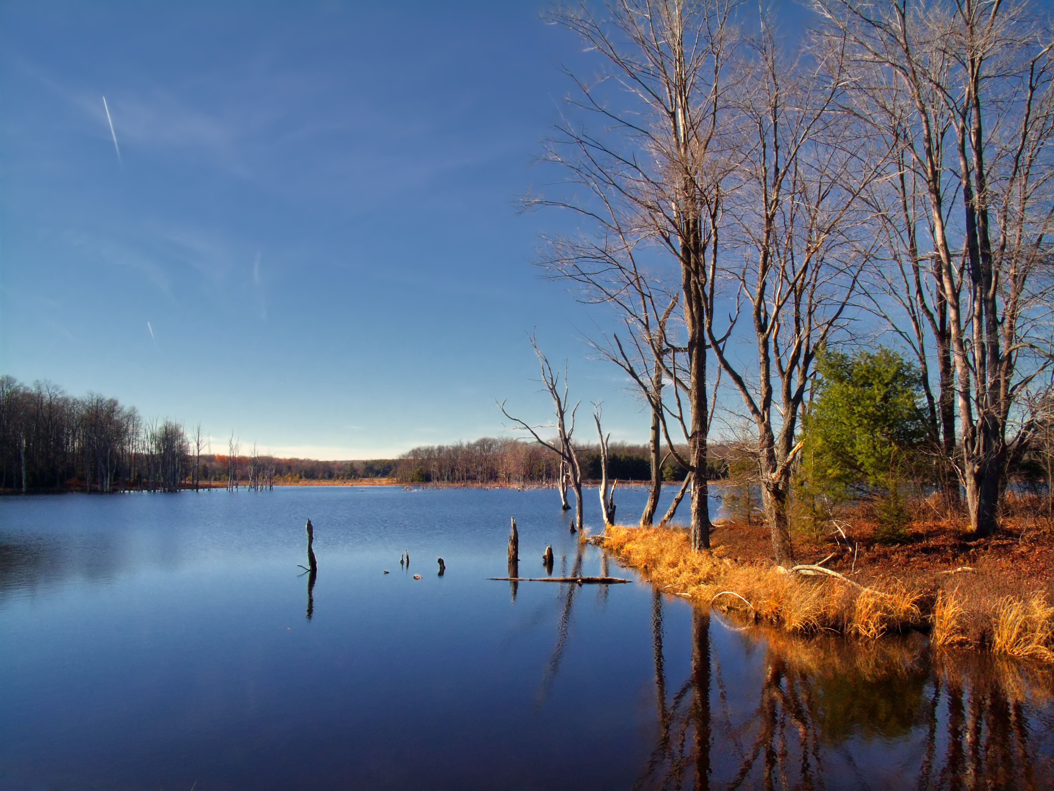 Beaver Run Shallow Water Impoundment, Elk County, within the Quehanna Wild Area of Moshannon State Forest in Pennsylvania, USA.